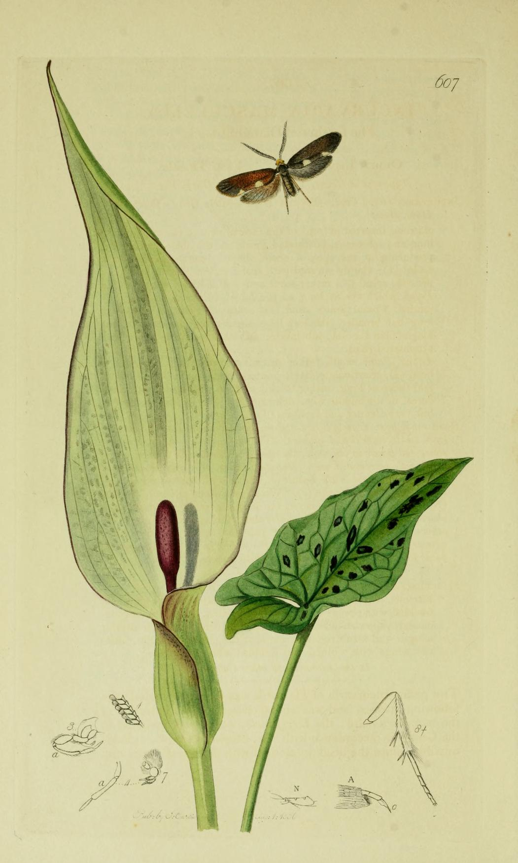 An illustration from British Entomology by John Curtis. Lepidoptera: Incurvaria masculella (Feathered Diamond-back).